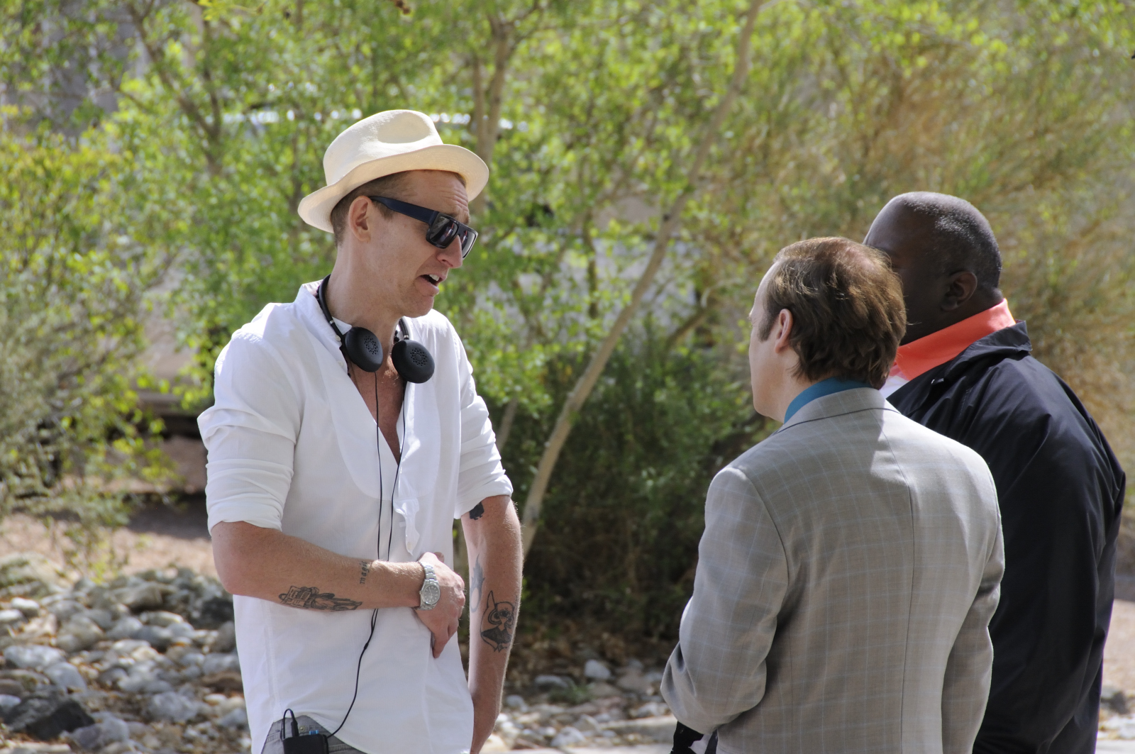 Director Johan Renck and the actors Bob Odenkirk and Lavell Crawford 2011 at the set of Breaking Bad of the episode 4x08 Hermanos.